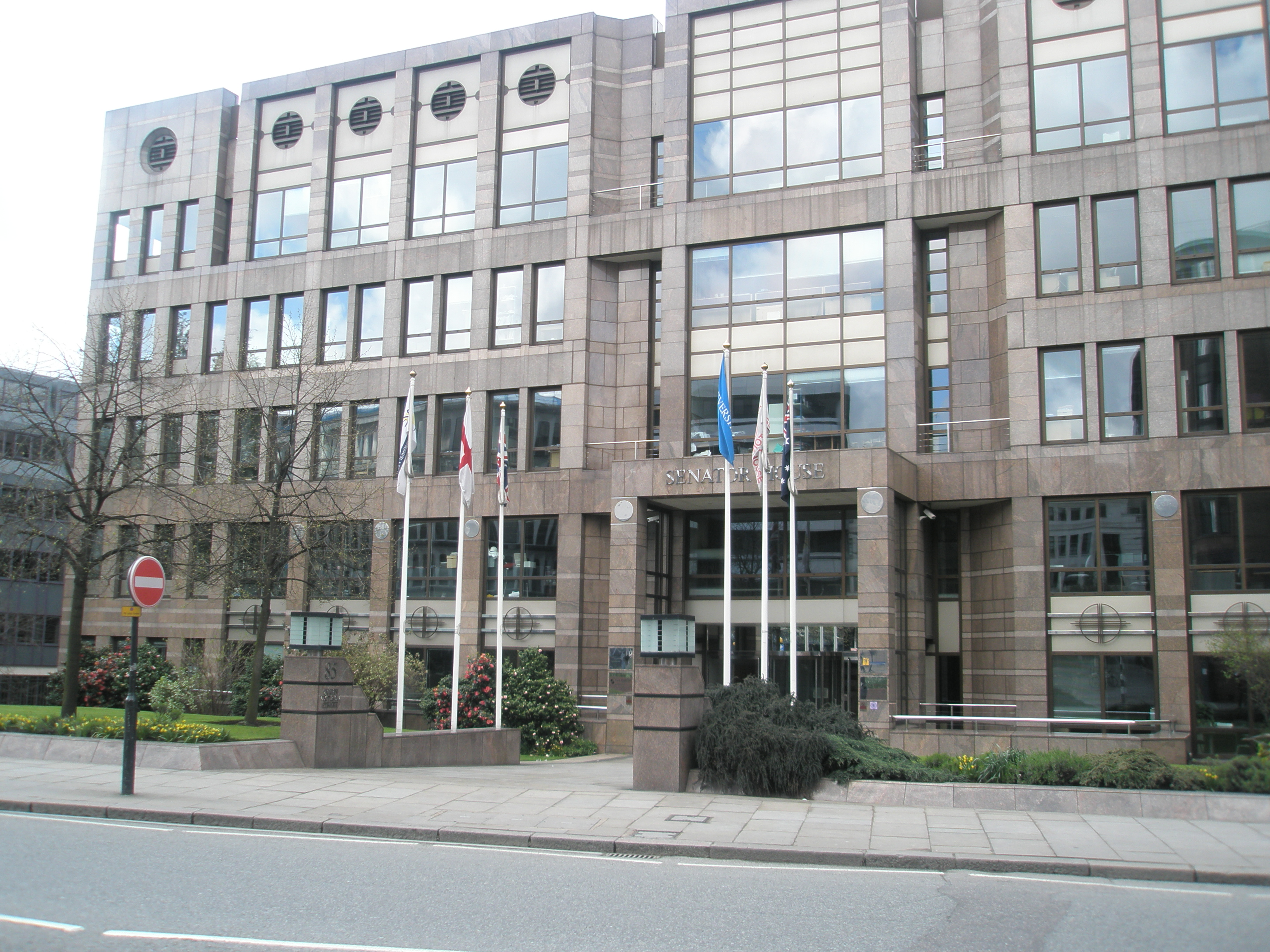 Senator House